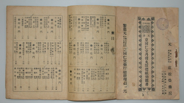 The drugs instruction when CSZ was a distributor of Jin Tong Ren Tang